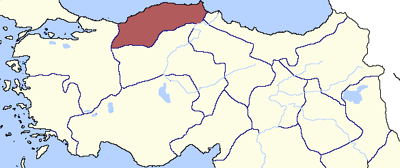 Kastamonu Eyalet in 1861. According to the information of this map: [1]